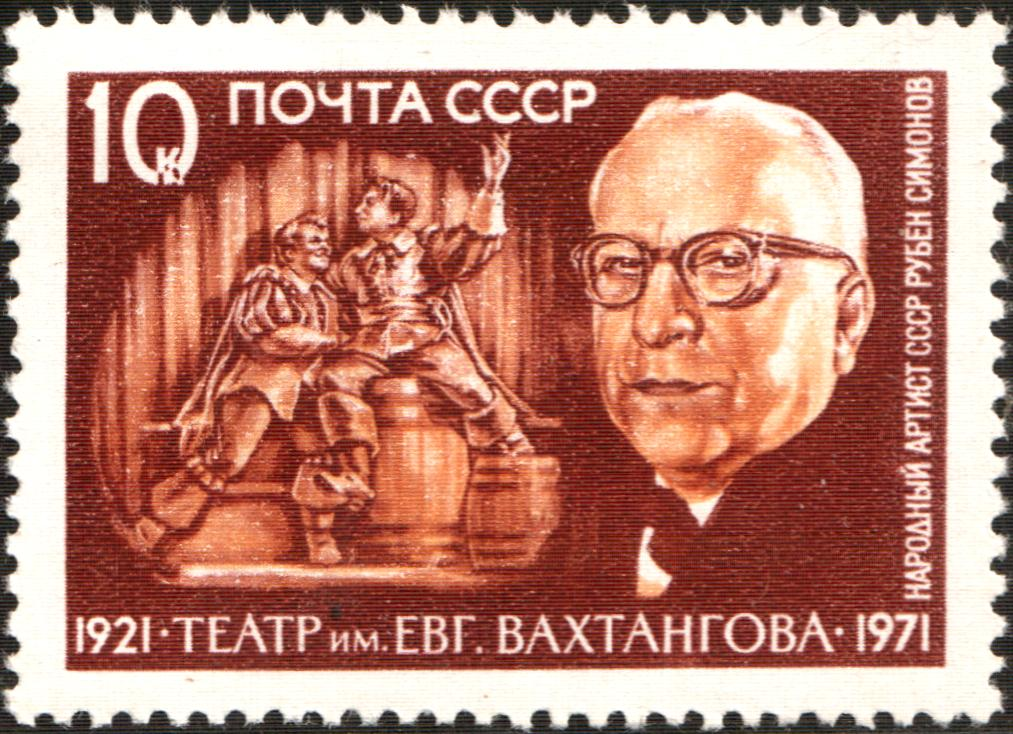 USSR stamp: Ruben Simonov (Director) and Scene from “Cyrano de Bergerac”. Series: 50th Anniversary of Vakhtangov Theatre, Moscow